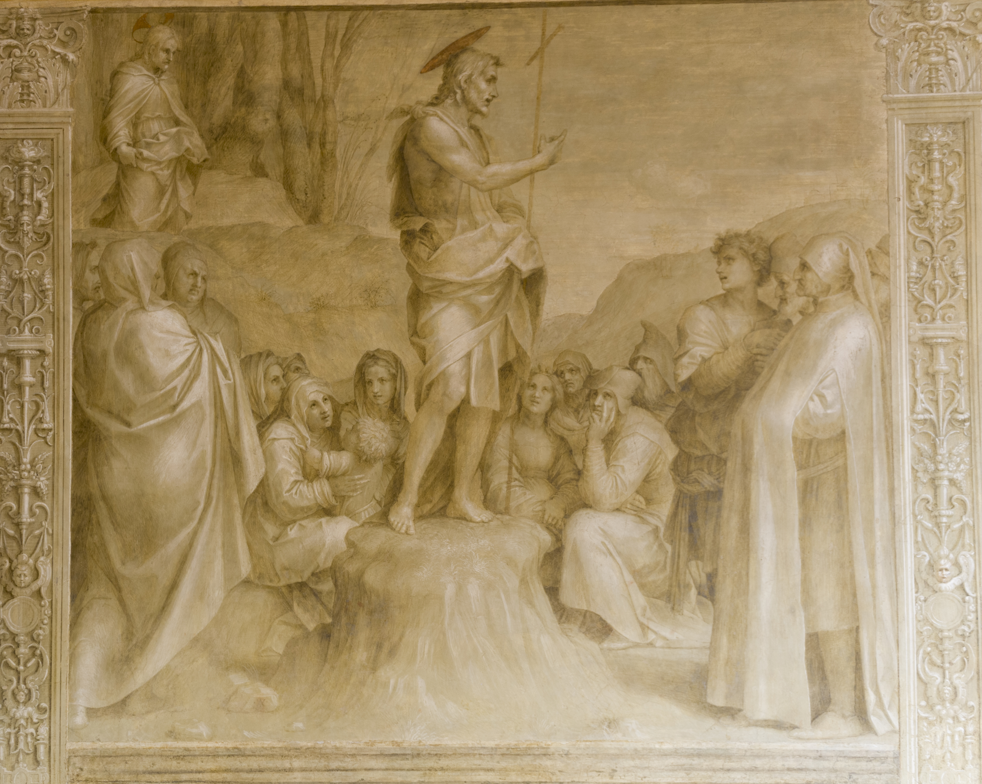 " The Baptist Preaching to the Crowds" by Andrea del Sarto